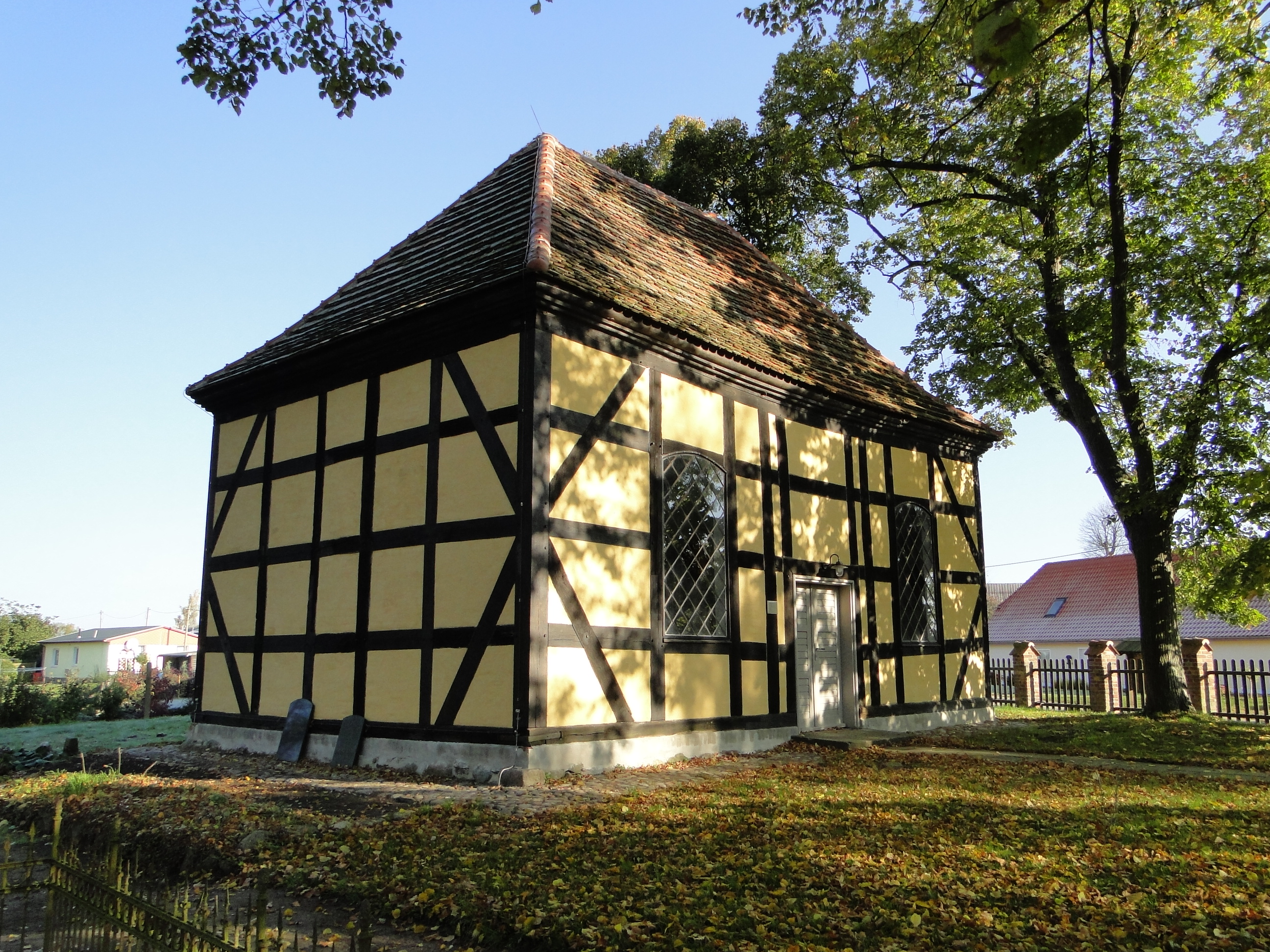 Church in Passentin, district Müritz, Mecklenburg-Vorpommern, Germany